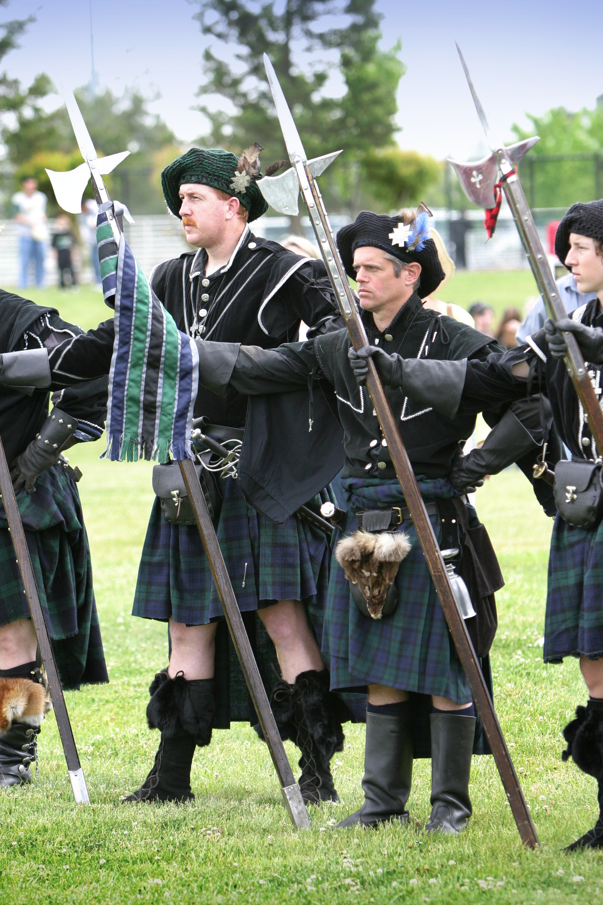 Halberd corps from the May 2006 Scottish Games in Pleasanton, California.